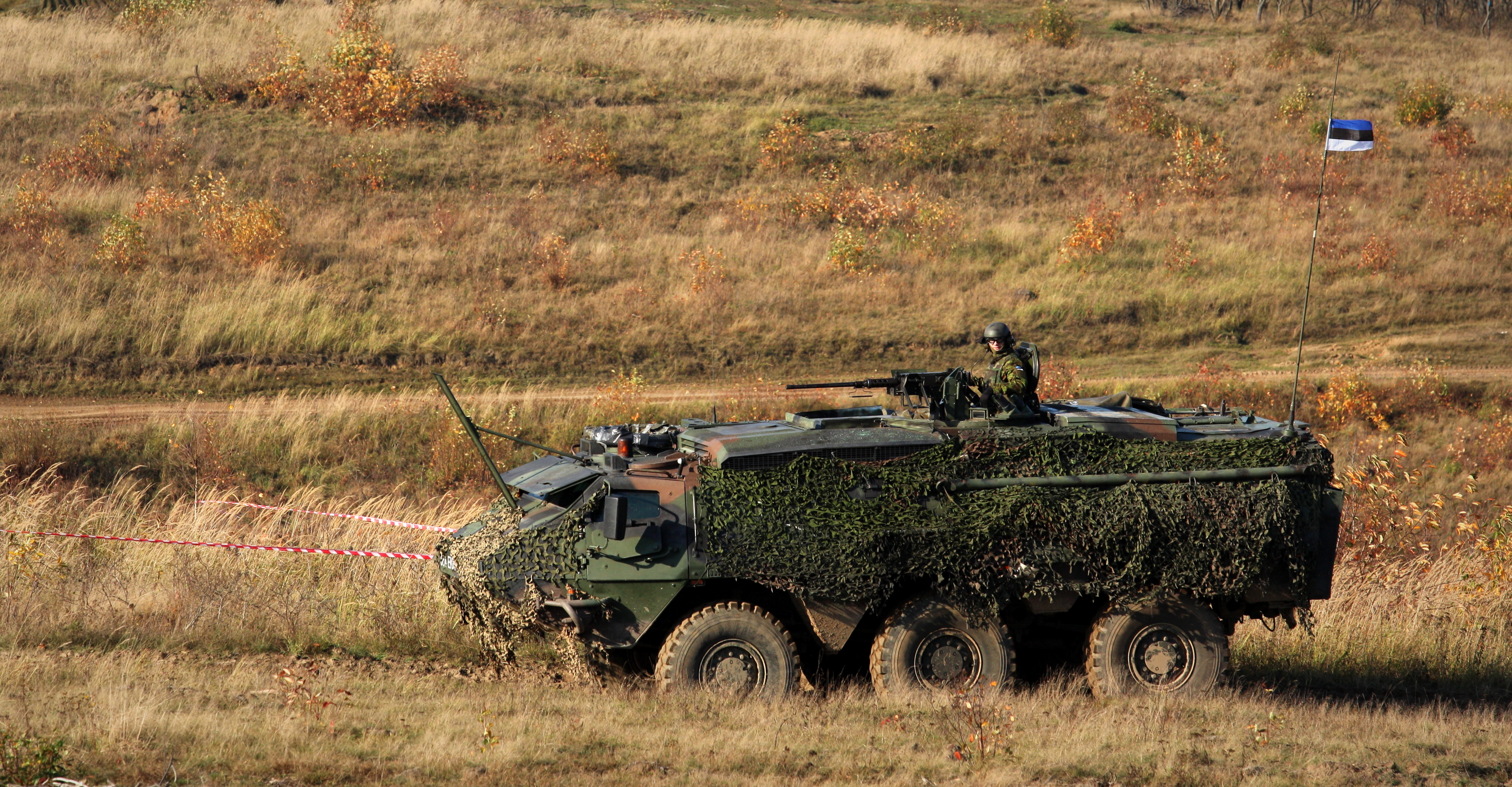 Estonian mechanized infantry company´s PASI APC. Exercise Steadfast Jazz 2013 is taking place from 1-9 November in a number of Alliance nations including the Baltic States and Poland. The purpose of the exercise is to train and test the NATO Response Force, a highly ready and technologically advanced multinational force made up of land, air, maritime and special forces components that the Alliance can deploy quickly wherever needed. The Steadfast series of exercises are part of NATO’s efforts to maintain connected and interoperable forces at a high-level of readiness.